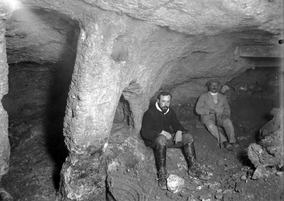 Photograph of Valter Juvelius with an anobymous member of the Parker mission. Photograph published in Ronny Reich's Excavating the City of David: Where Jerusalem's History Began (Israel Exploration Society, 2011), p. 57 with the following caption: "Valter Juvelius, of the Parker expedition (1909-1911) sitting in the excavated cave".